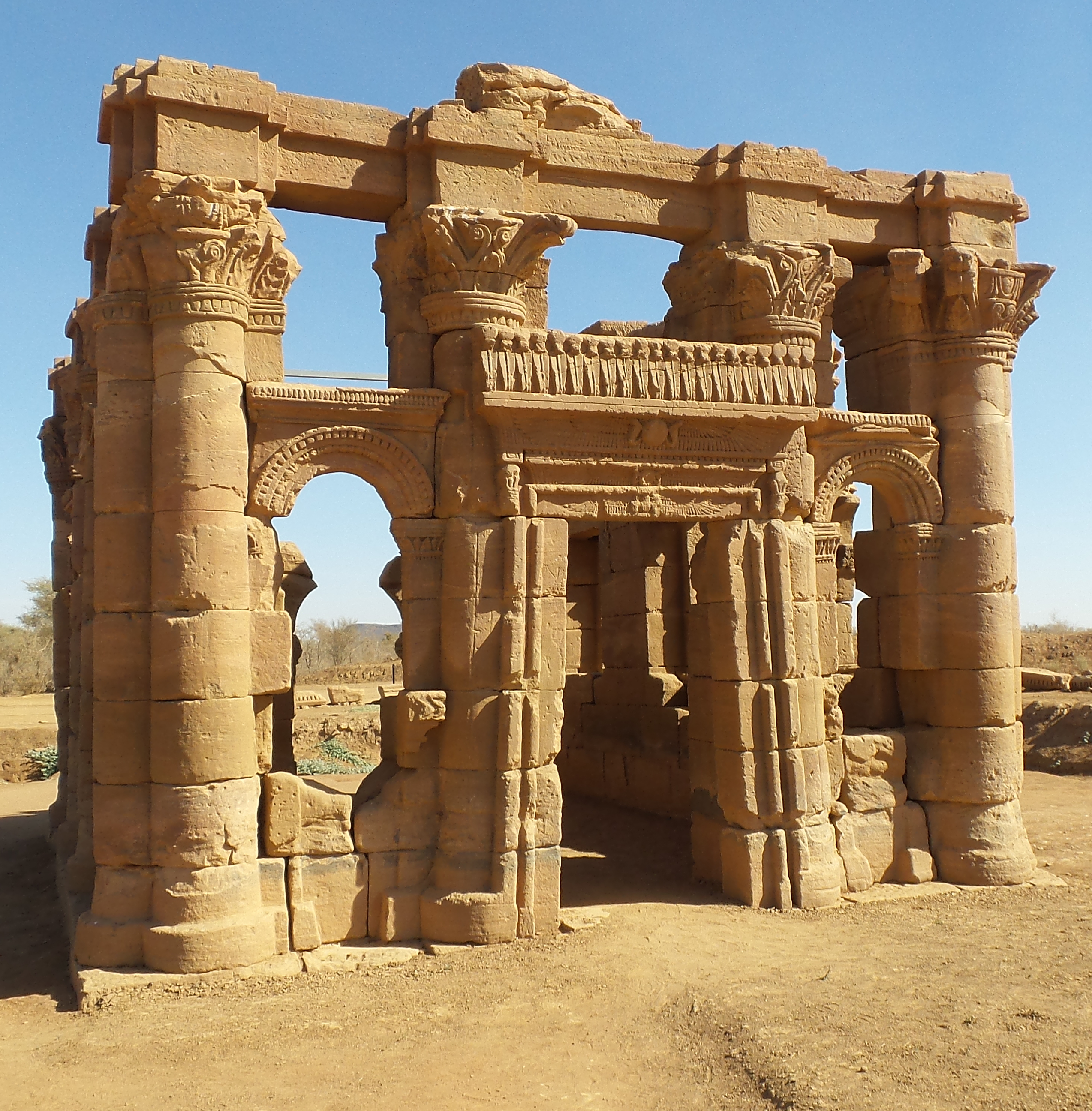 The "Roman Kiosk" in Naga, Sudan. (Cropped)